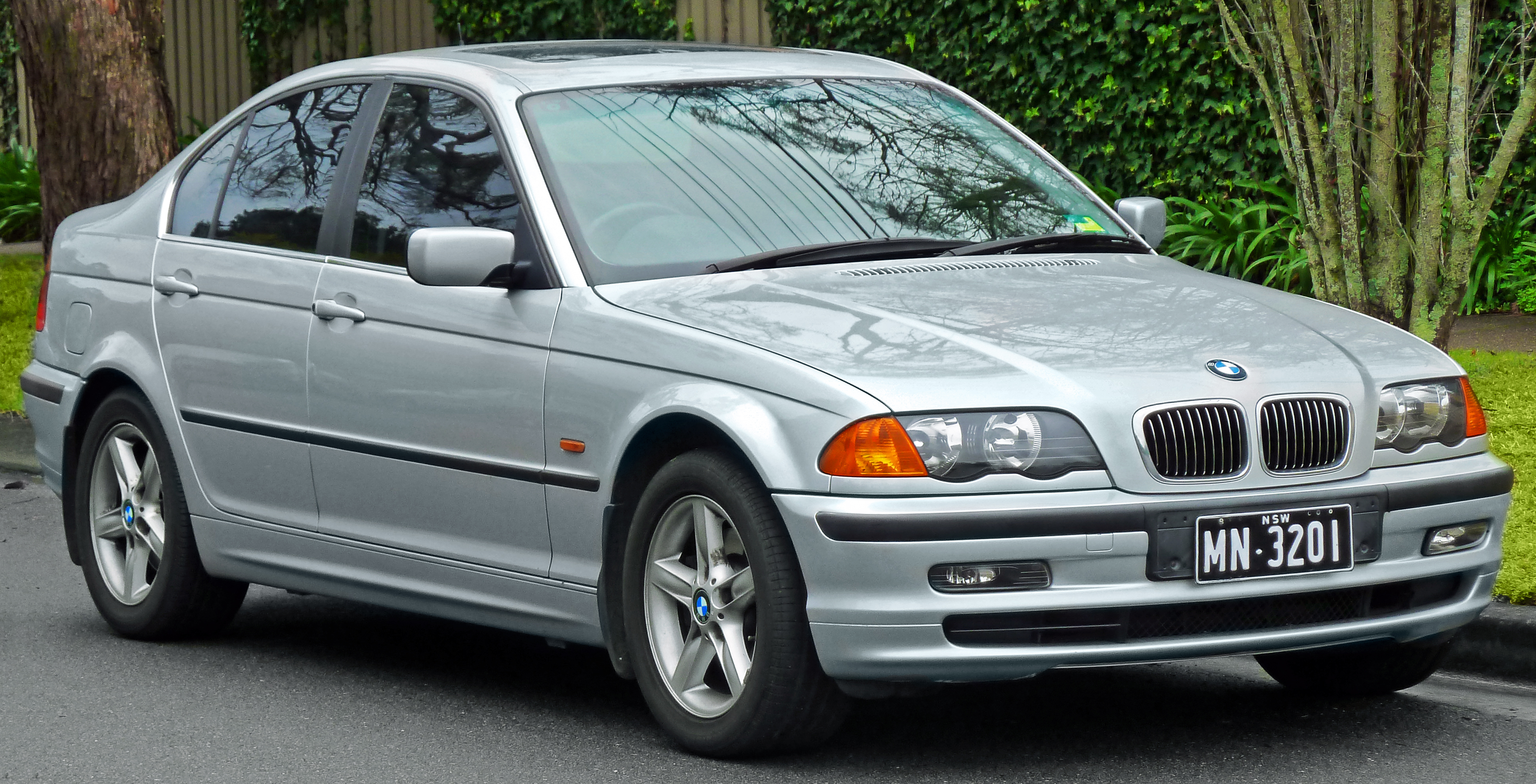 1998–2001 BMW 328i (E46) sedan. Photographed in Lindfield, New South Wales, Australia.